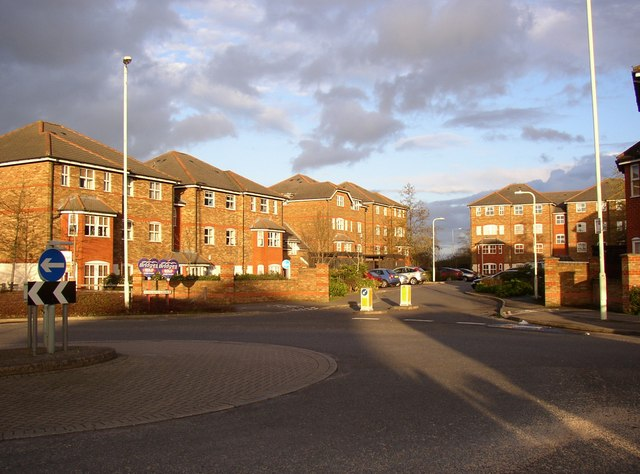 Flats, Wingate Court, Aldershot This street is opposite the entrance to the Tesco car park.